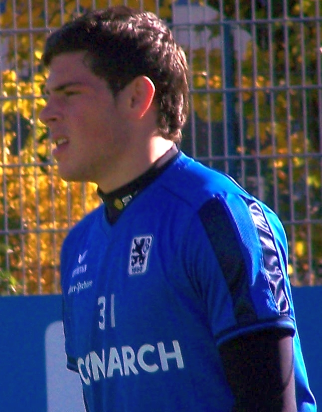 Kevin Volland, 1860 munich, training